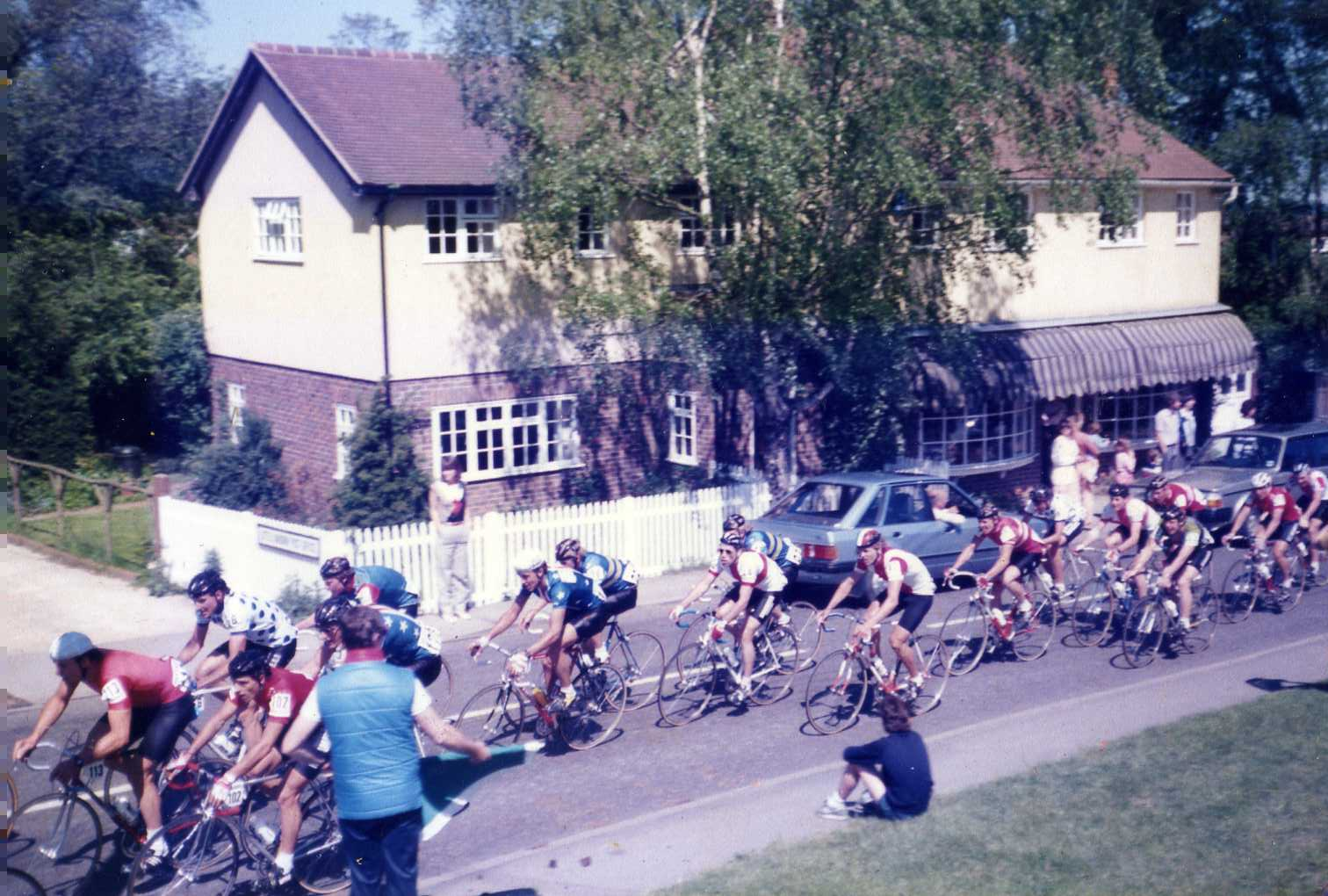 The riders on the extreme left in red jerseys would have been in the Soviet Union team. THis was a 112km stage at the end of May. The 1985 race was won by the Belgian Eric van Lancker (Fangio team). Other famous riders in the race that year were Paul Curran (GB) Paul Watson GB,Tomas Kirsipuu (USSR) (probably Estonian) Some good pictures on Paul Curran's site here Elliott would have been in the Raleigh-Weinmann team. THis day's stage was won by the Czechoslovakian born Australian Kvetoslav Palov from Knickman and Kirsipuu. The next day, Phil Bayton won the Ipswich criterium from the American, Roy Knickman and Malcolm Elliott. On the left, riders no. 113 and 107 from the USSR (?) team. Perhaps someone has an old programme to identify them???